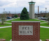 Federal Correctional Institution, Milan - Interior of the prison grounds